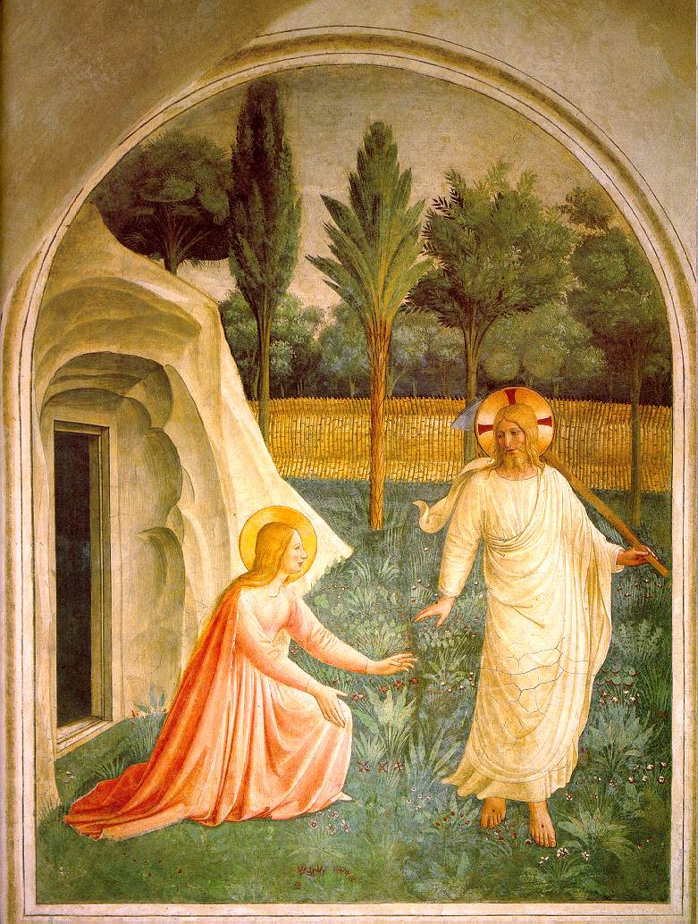 Noli me tangere, fresco by Fra Angelico